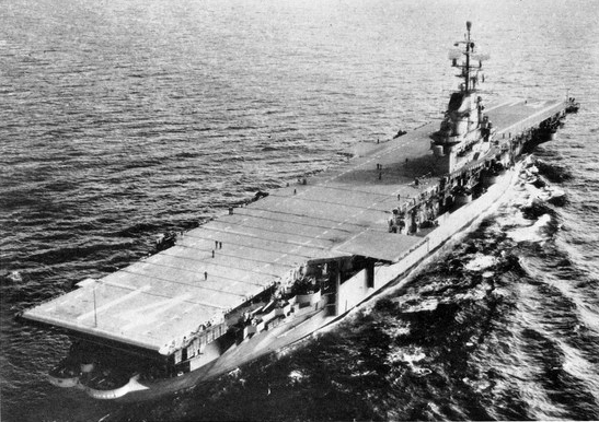 Aft view of the U.S. Navy aircraft carrier USS Ticonderoga (CVA-14) following her SCB-27C conversion, circa 1954.